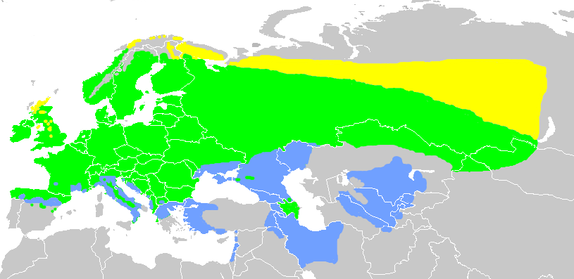 Range map of the Yellowhammer (Emberiza citrinella) Based on (1995) Buntings and Sparrows A Guide to the Buntings and North American Sparrows, Robertsbridge, East Sussex: Pica Press, p. 109 ISBN: 978-1873403198. Snow, David; Perrins, Christopher M (editors) (1998) The Birds of the Western Palearctic concise edition (2 volumes), Oxford: Oxford University Press, p. 1,459 ISBN: 978-0-19-854099-1. Base map is File:BlankMap-World-large.png